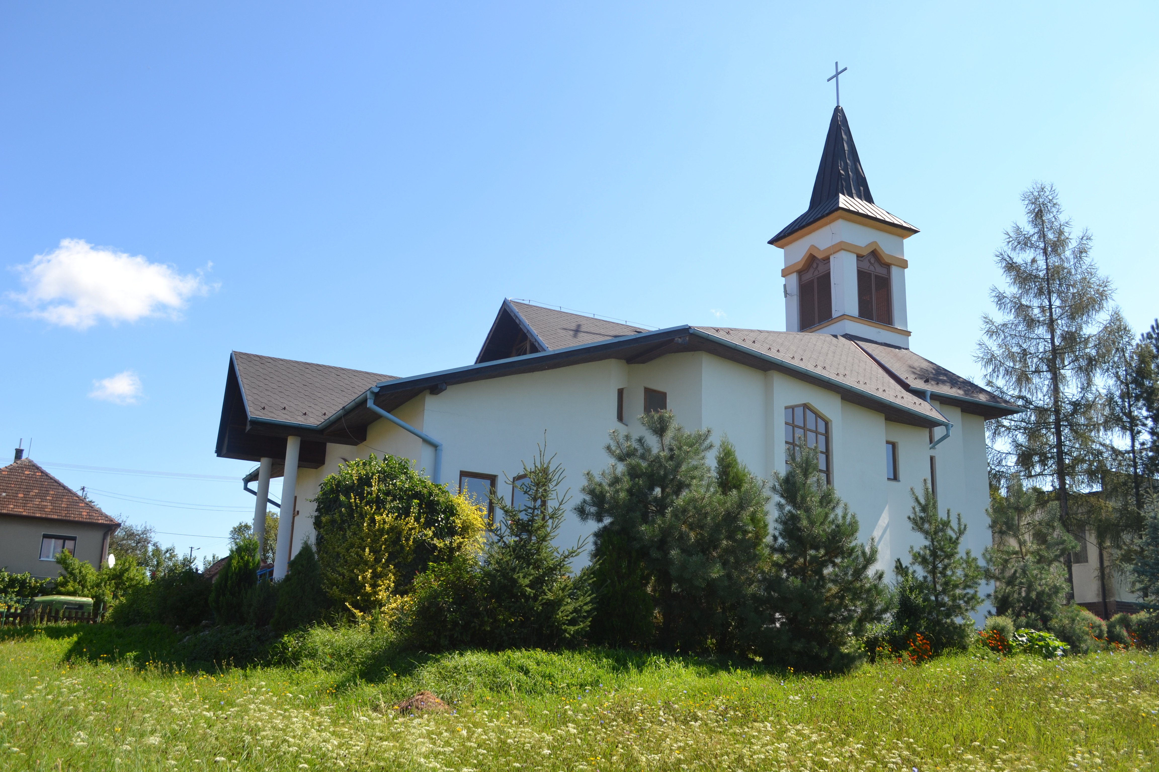 Roman Catholic Church of the Holy Family in Veľká Ves